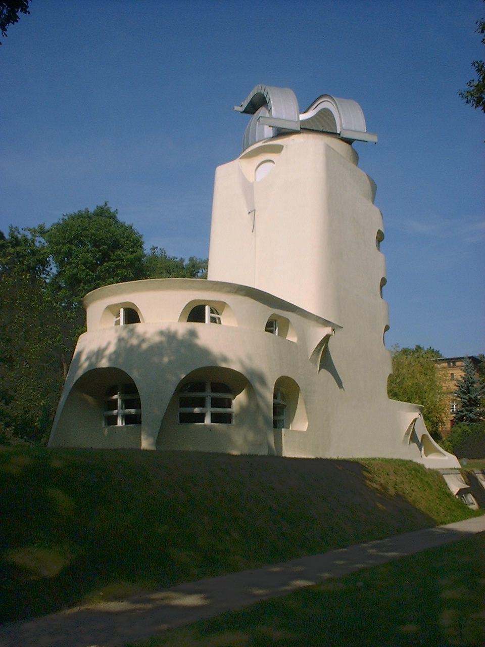 Einstein Tower in Potsdam, Germany